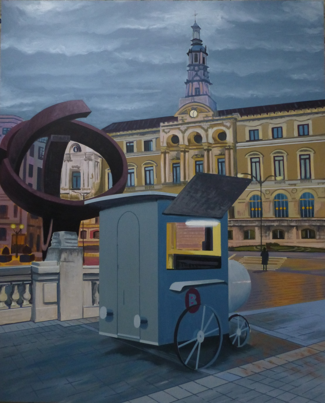 Bilbao City Hall